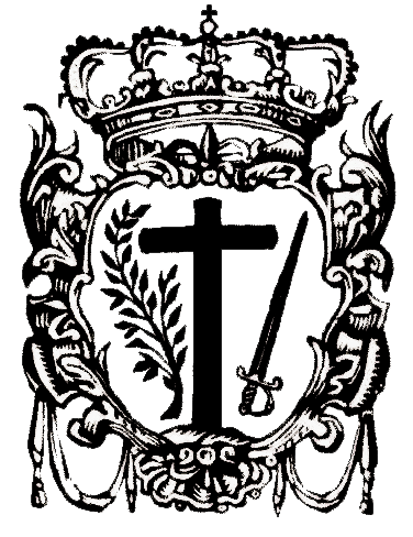 Seal for the Tribunal of the Holy Office of the Inquisition in Spain.